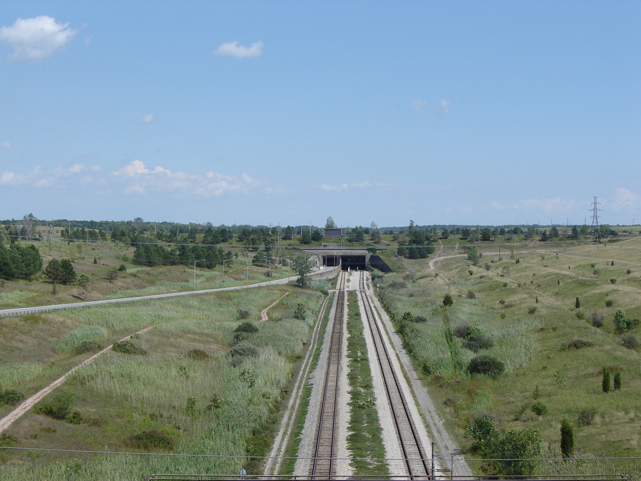 The Townline Tunnel, as seen from the west. Photo taken from the CN rail viaduct over the west approach to the tunnel.